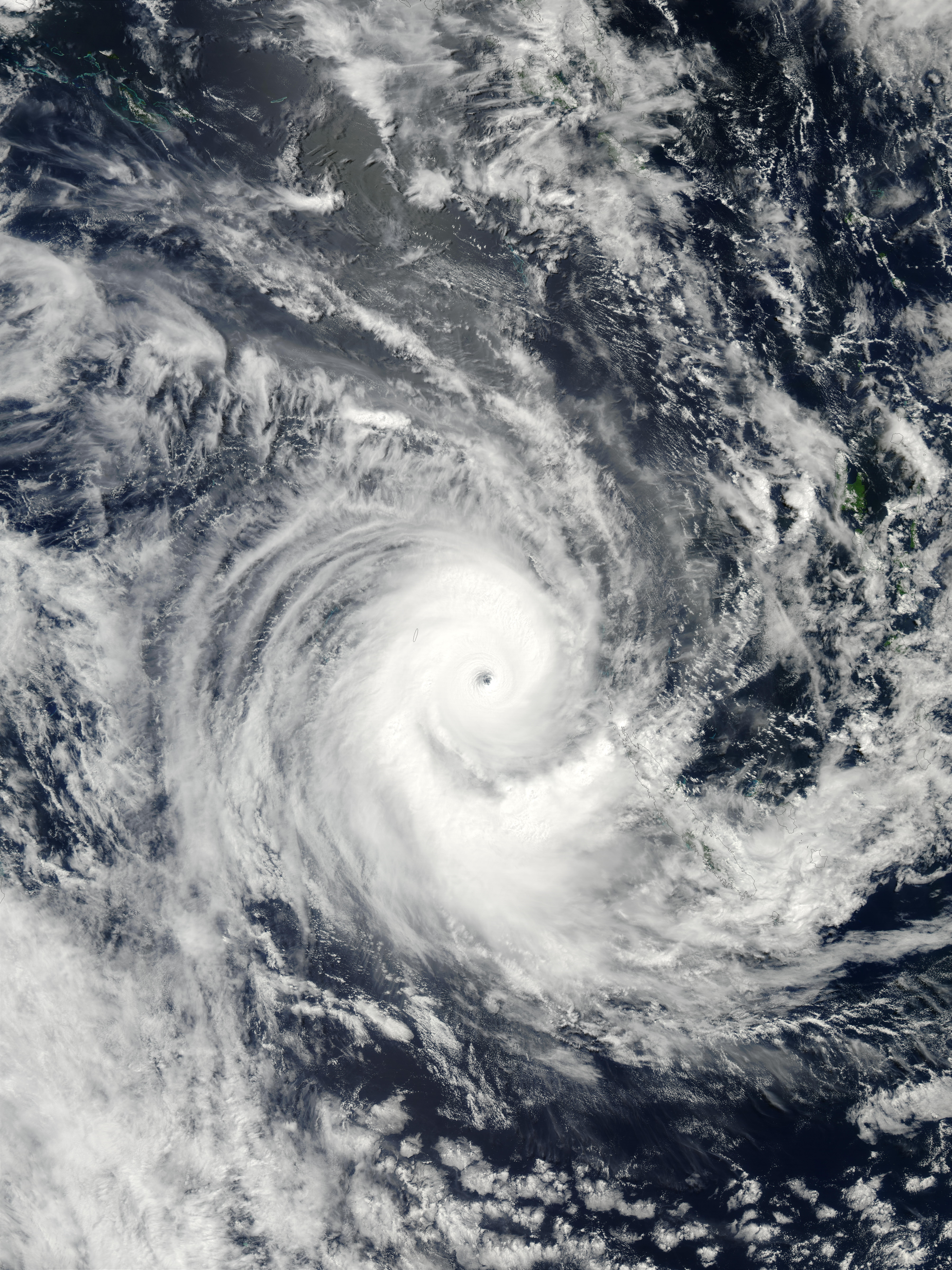 East of Australia in the Pacific Ocean, Tropical Cyclone Erica plowed into the French island of New Caledonia on March 13, 2003, leaving at least one person dead and many others injured. Erica peaked as a Category 5 cyclone on March 12, and as of March 14 had showed rapid weakening to a Category 1 storm. This image of Erica shows the storm’s eye northwest of New Caledonia on March 13.